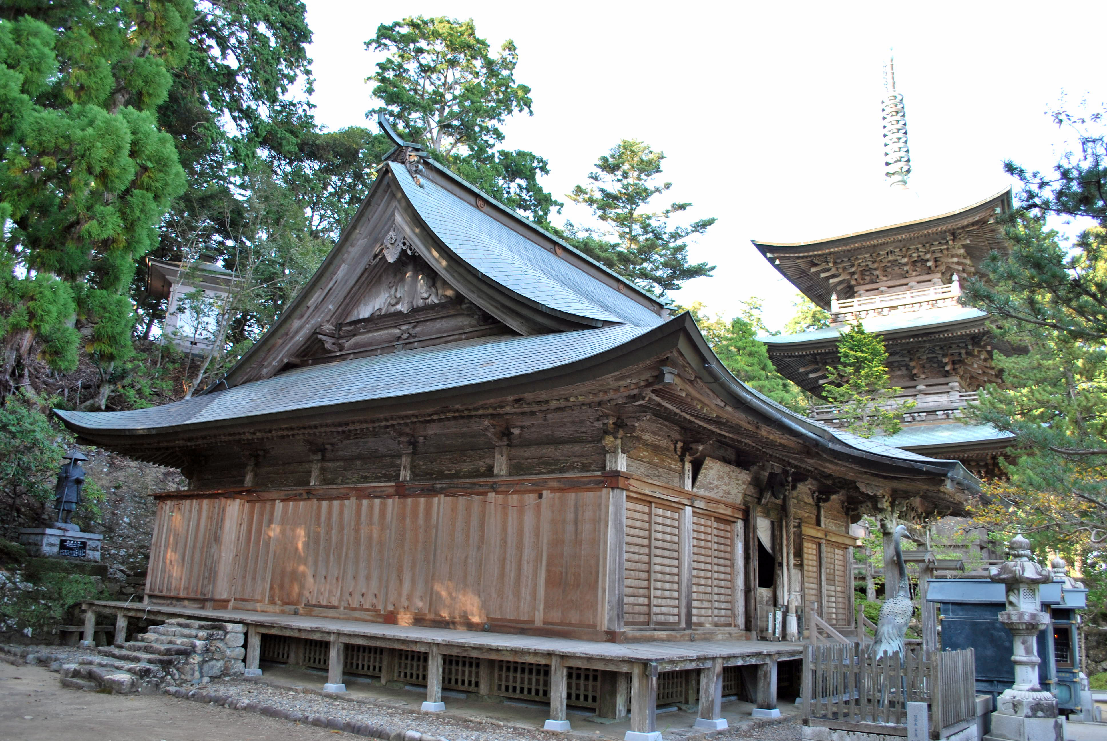 Main temple and Pagoda, Kakurin-ji